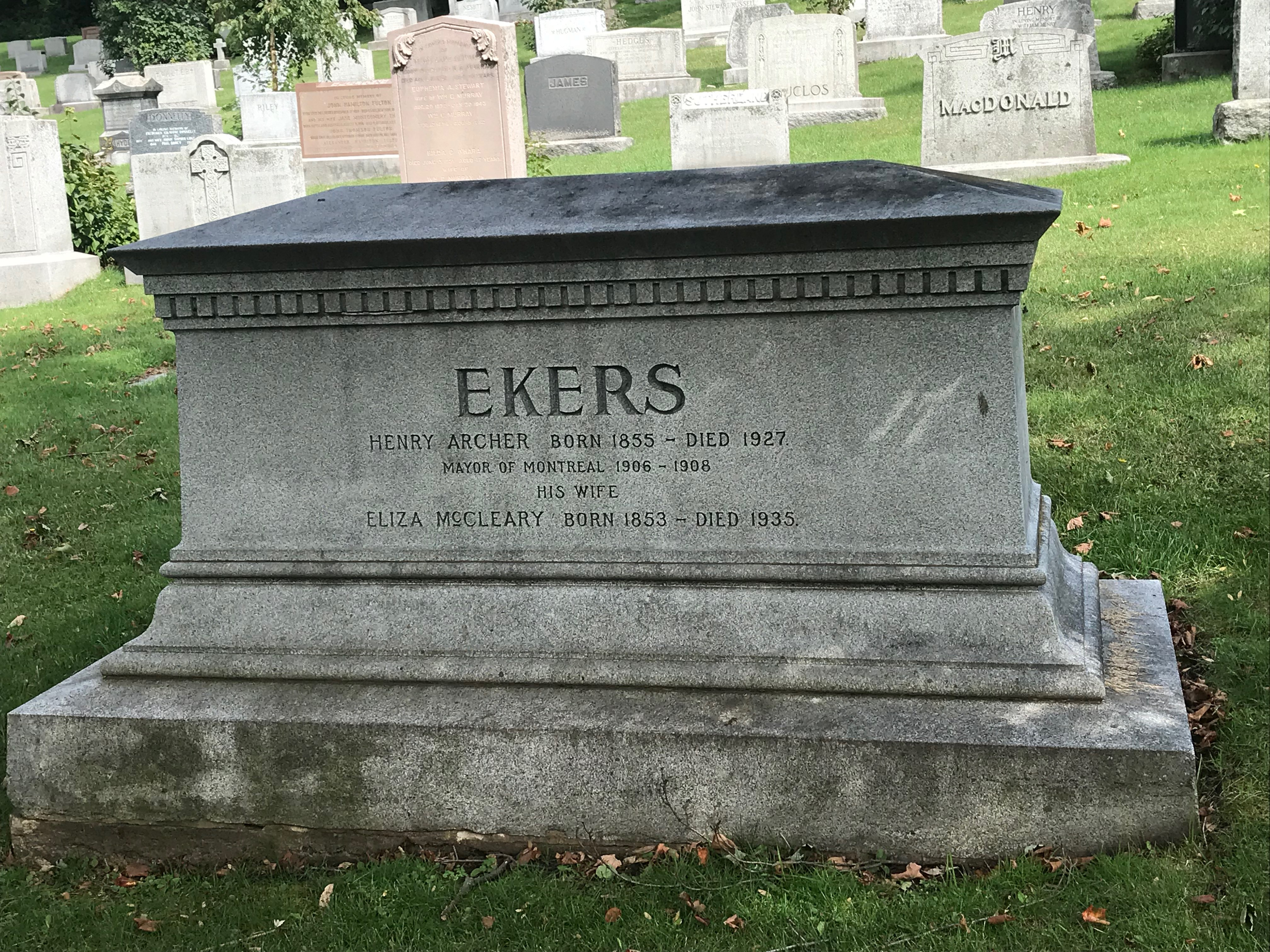 Funeral monument of Canadian businessman and Mayor of Montreal Henry Eckers. Mount Royal Cemetery, Montreal.